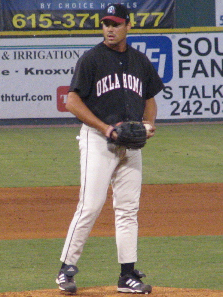 Justin Thompson on the mound for the Oklahoma RedHawks in 2005